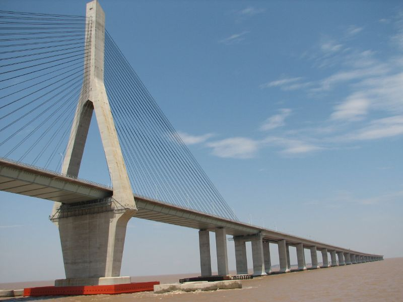 Donghai Bridge in Shanghai